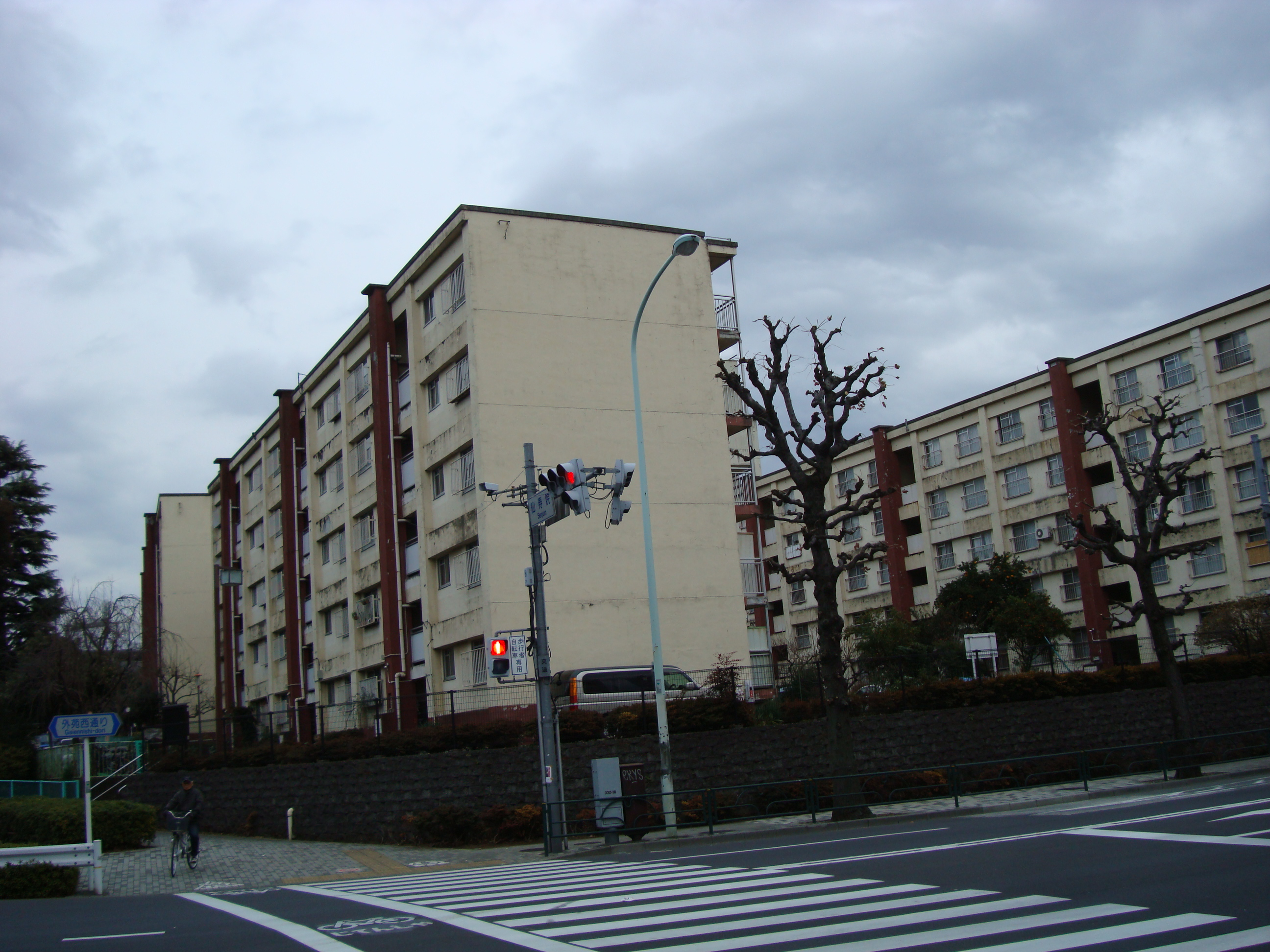 Kasumigaoka Apartments, Shinjuku, Tokyo